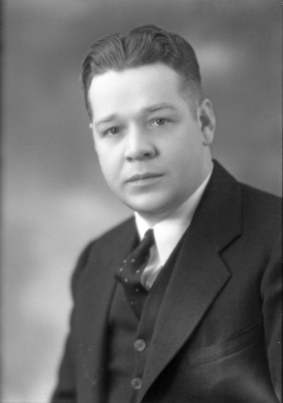 Representative Robert F. Waldron